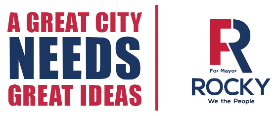 Rocky De La Fuente mayoral campaign, 2017